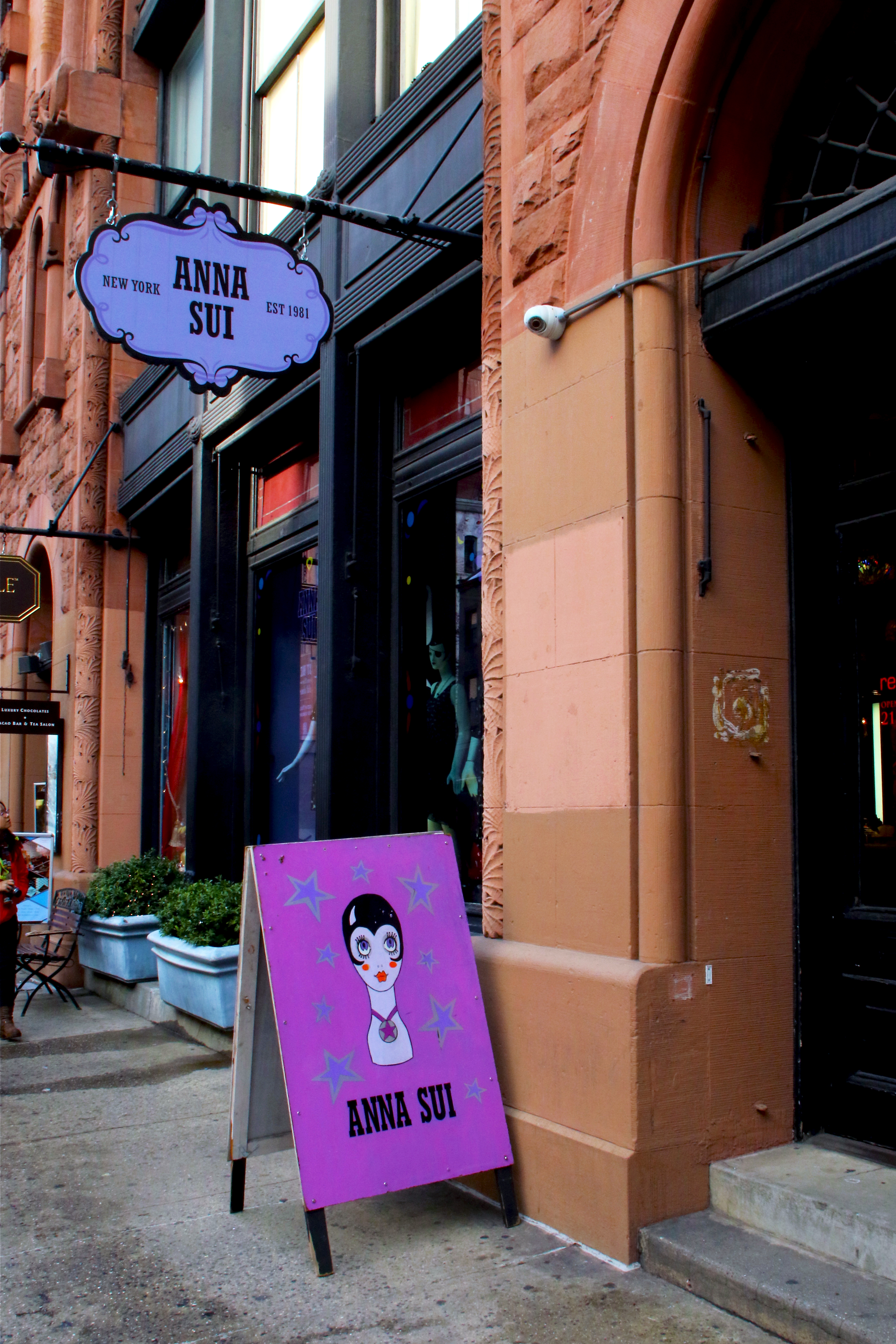 Exterior view of the Anna Sui Store at 484 Broome Street, Manhattan in 2016.